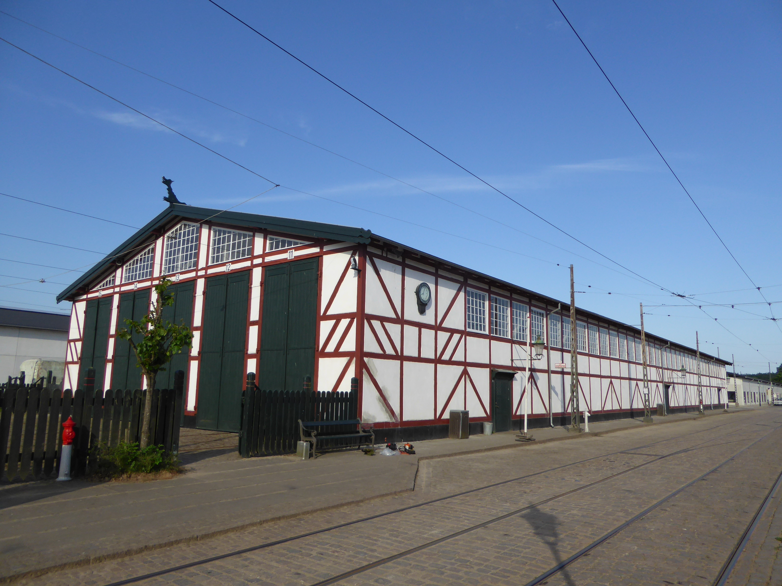 The old tram depot Valby Gamle Remise at Sporvejsmuseet Skjoldenæsholm in Denmark.